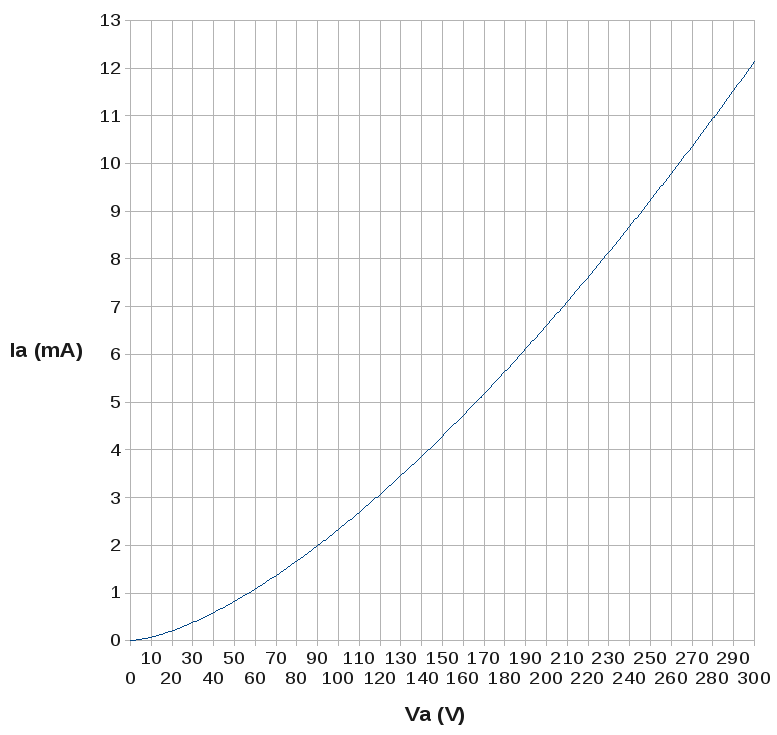 Graph of Child-Langmuir Law is shown, namely dependence of anode current on anode voltage in an idealized vacuum diode. A (cathode area) = 1 cm2, d (cathode-anode distance = 1 cm). Formula used is from Child's Law section in Space charge article on english wikipedia.